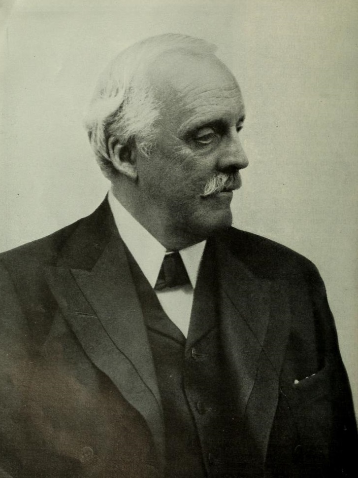 Portrait of Arthur Balfour, 1st Earl of Balfour